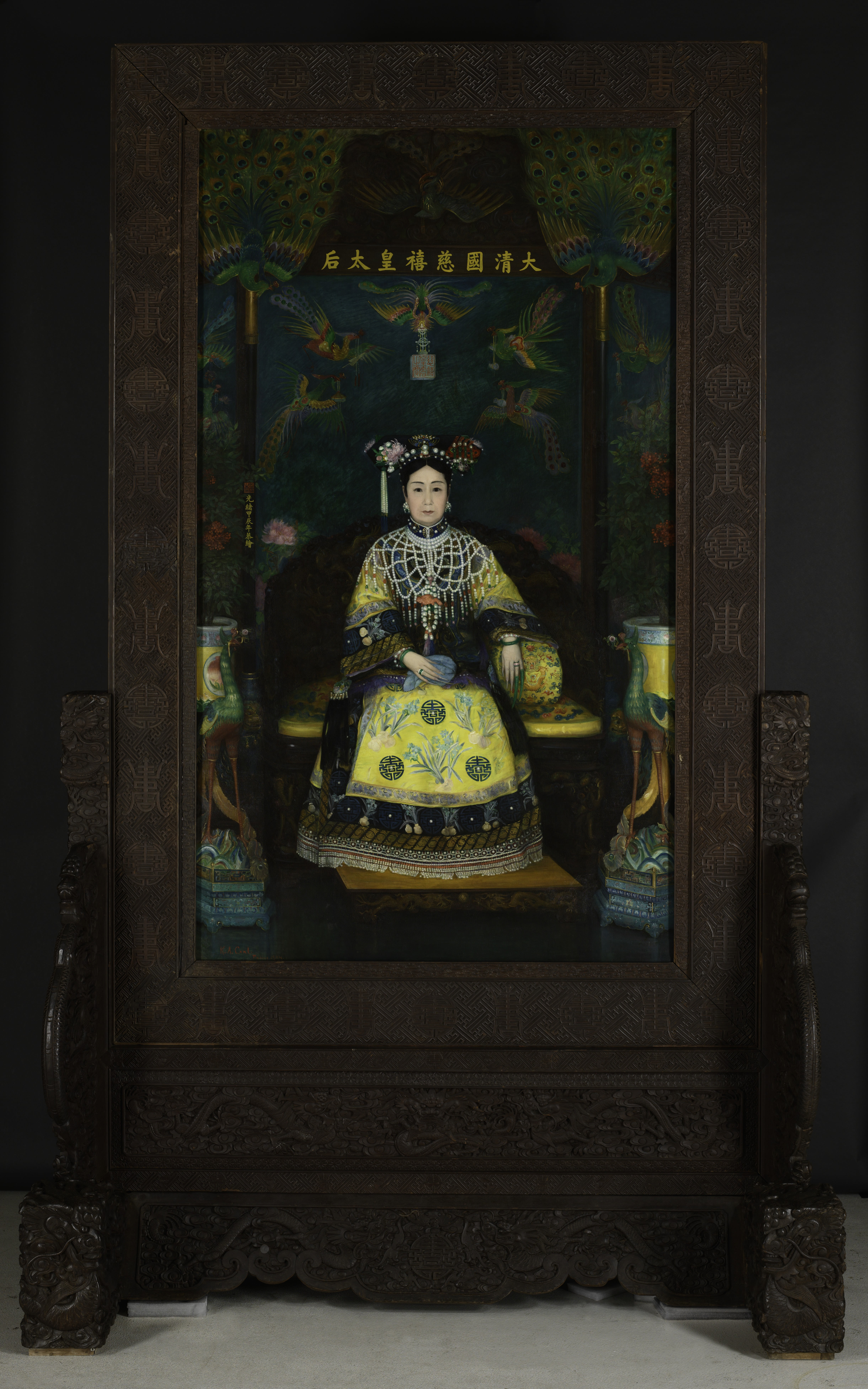 Portrait of The Empress Dowager, Tze Hsi, of China, by Katharine Carl, 1904, oil on canvas with camphor wood frame.